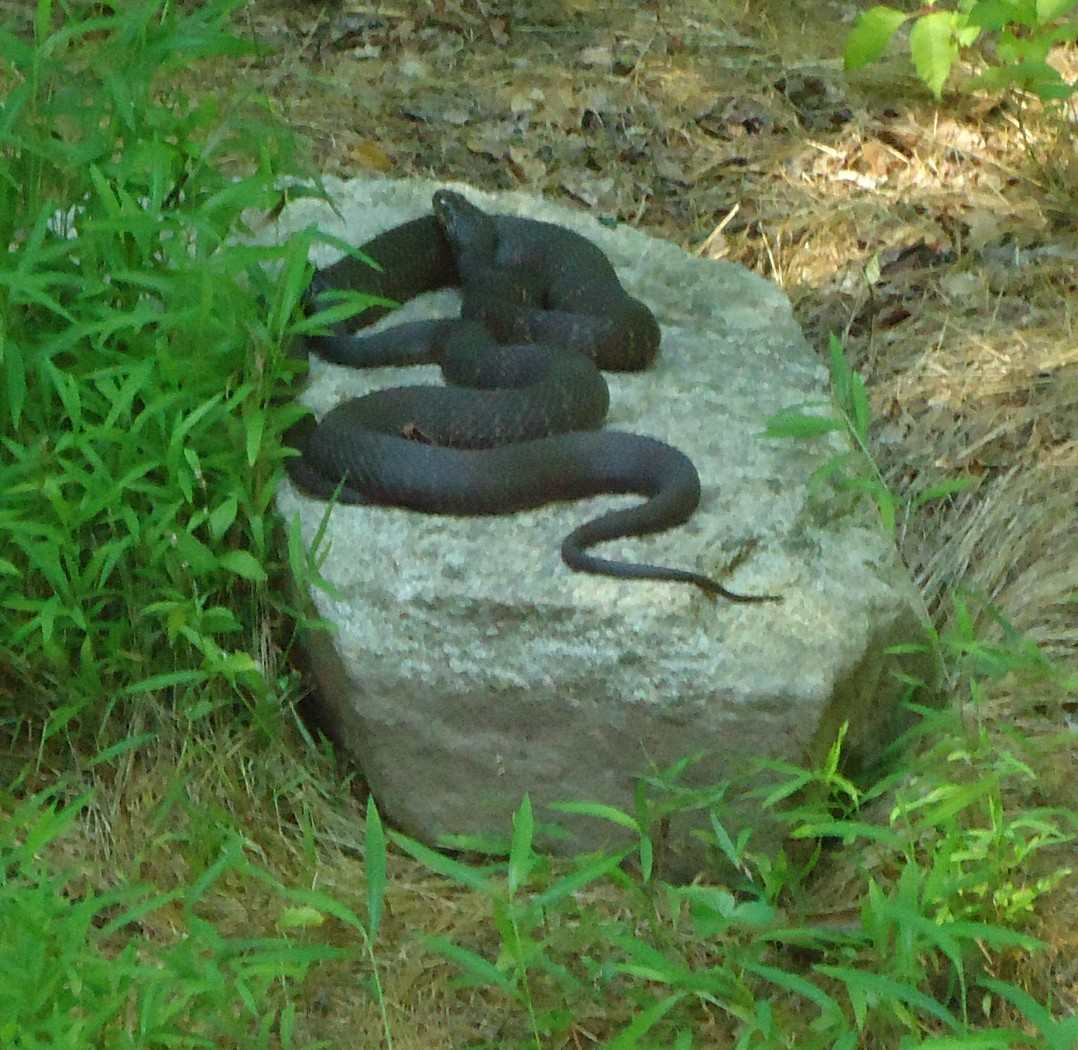 Snakes on rock. The Loantaka Brook Reservation in Morris County, New Jersey, has 570 acres of nature trails for biking, jogging, horseback riding, picnics, athletic fields.